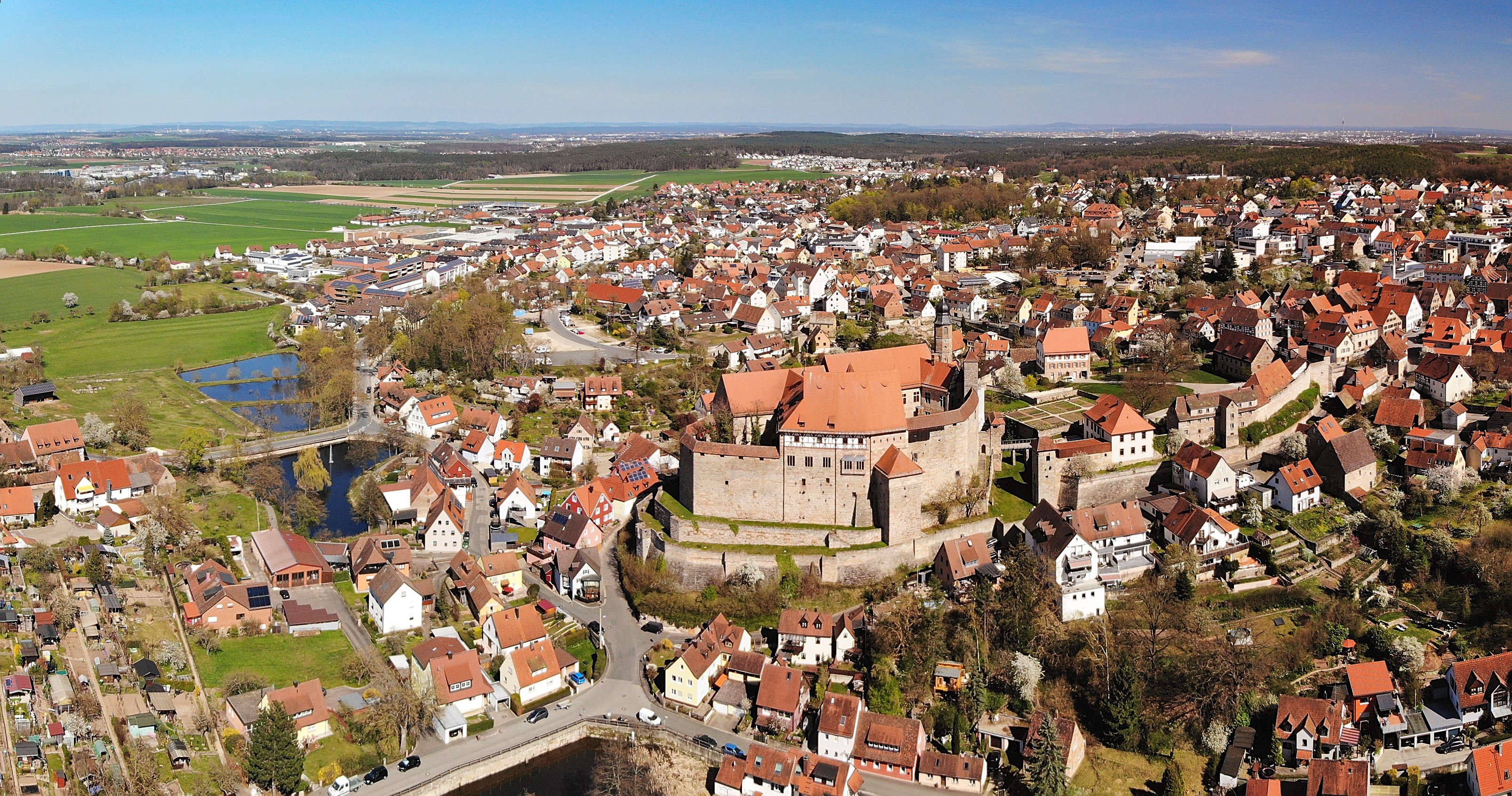 Cadolzburg Ortskern Panorama (2020)